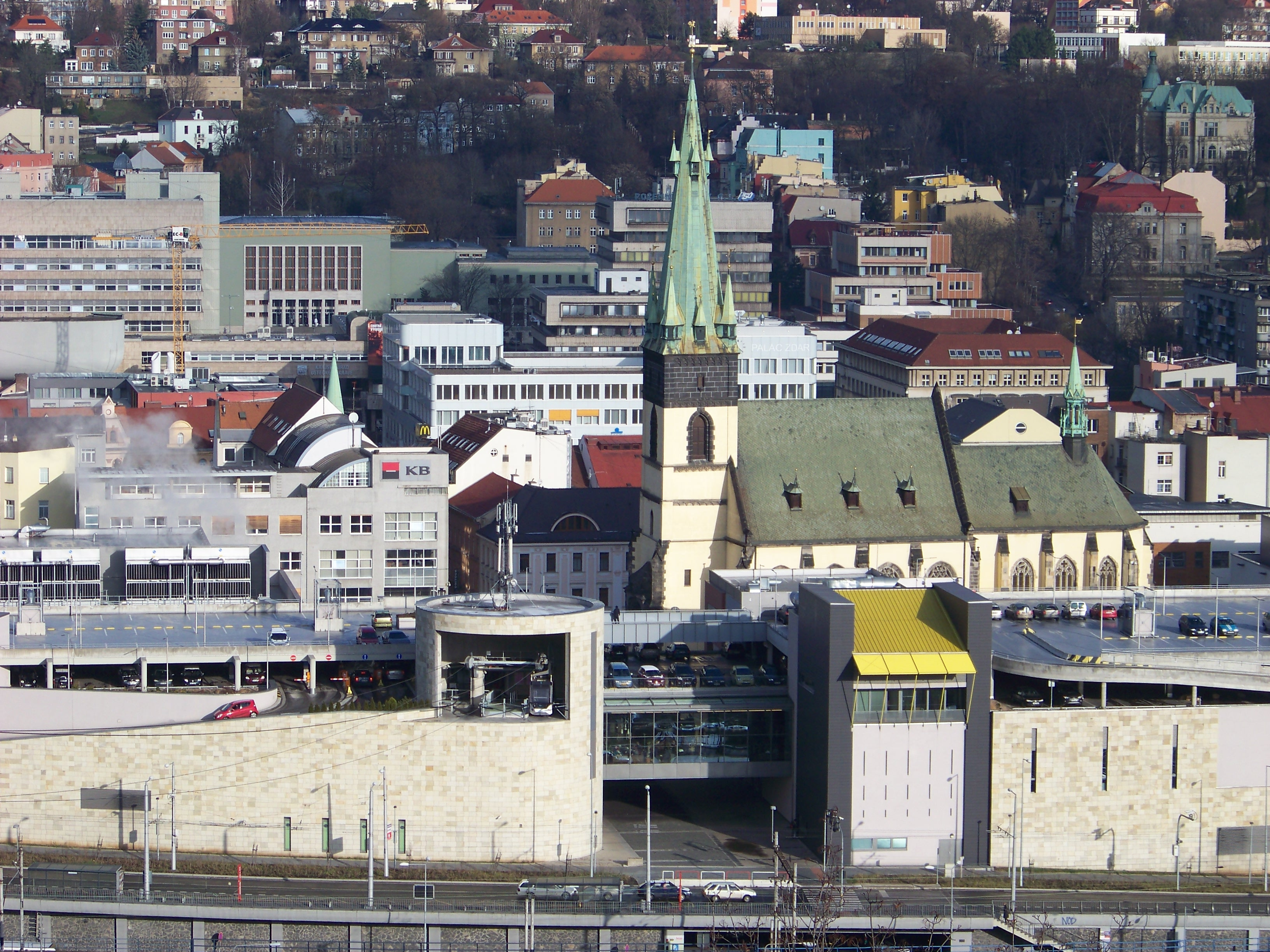 Ústí nad Labem, the Czech Republic. A view from Větruše hill. - Google Maps - Google Earth